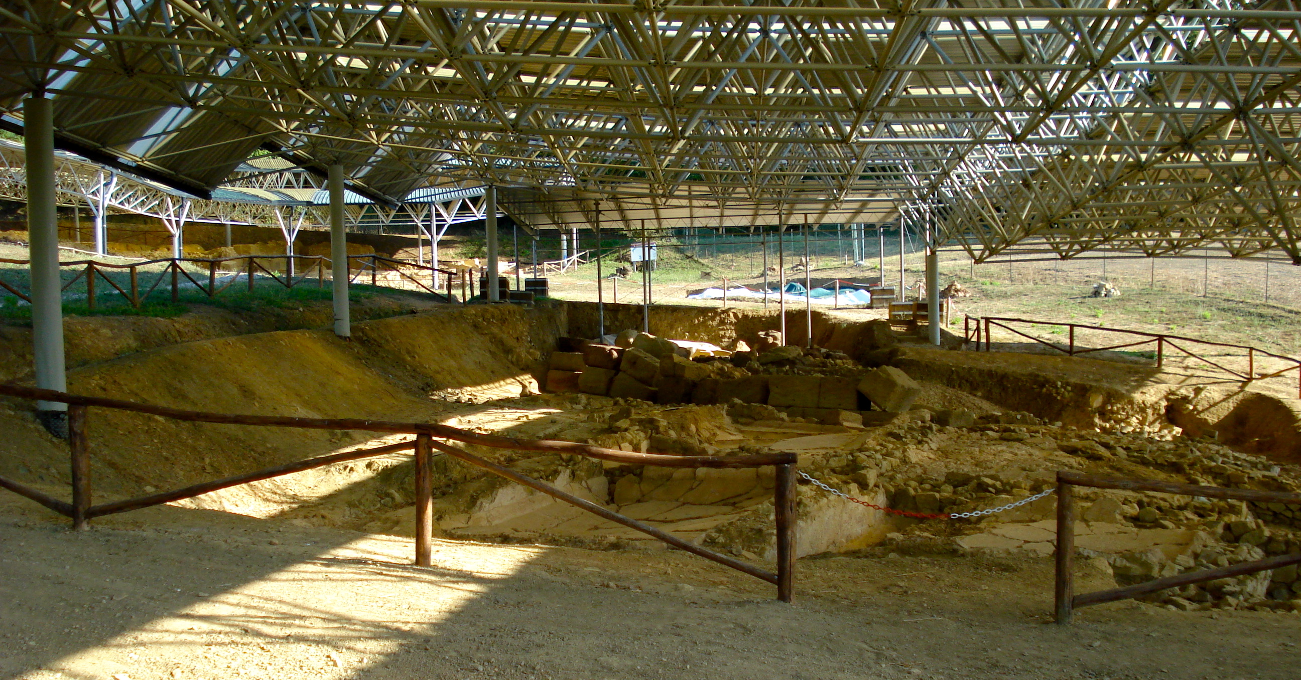 Sasso Pisano